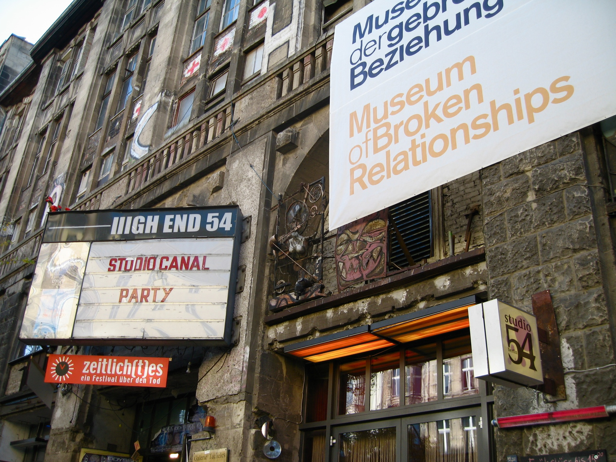 Museum of Broken Relationships visits Berlin in 2007 in its international tour.